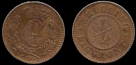 A ½ Rigsmontskilling coin from 1868.